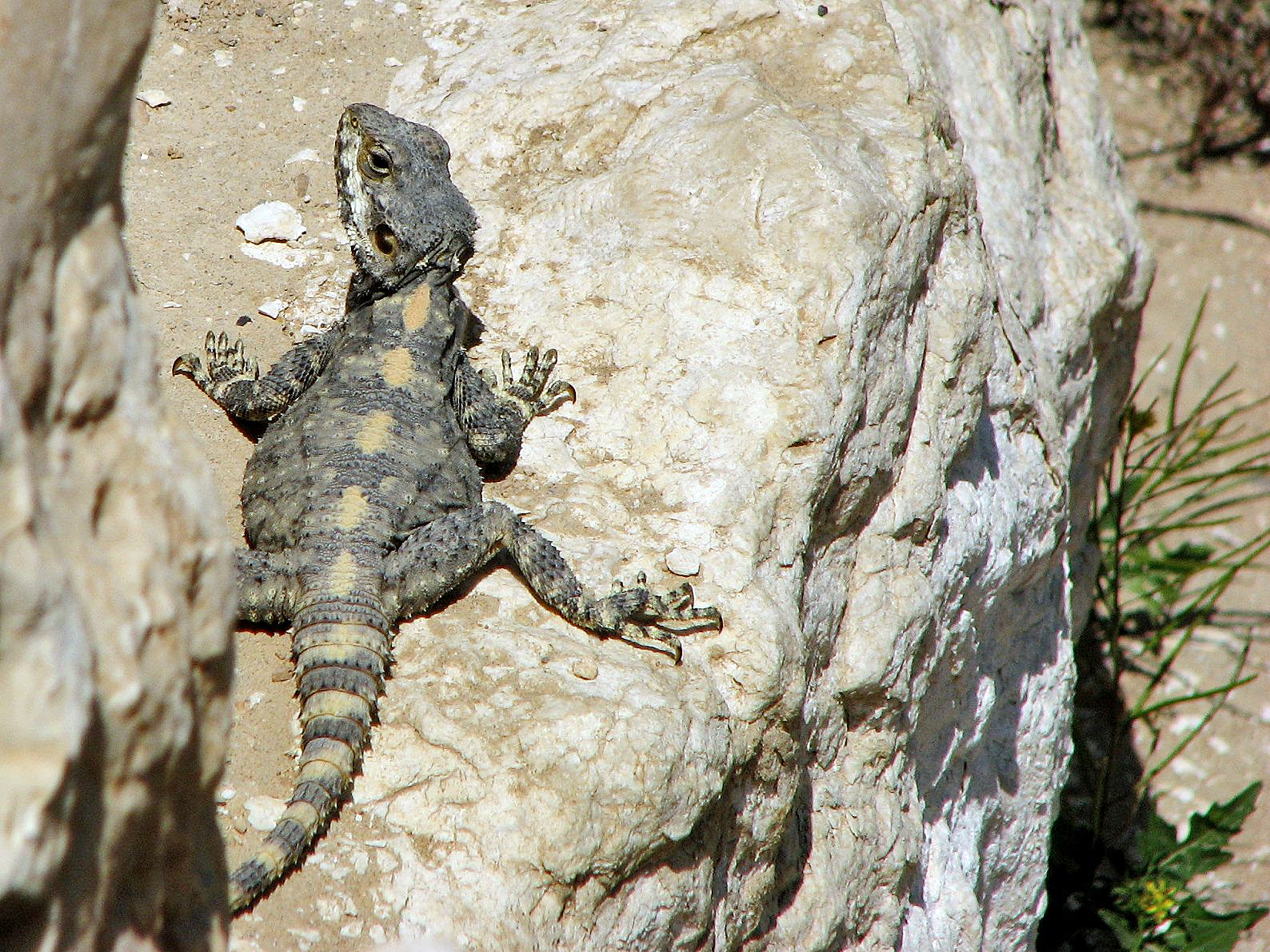 Roughtail Rock Agama. The photo was taken in southern Israel, in Negev desert.